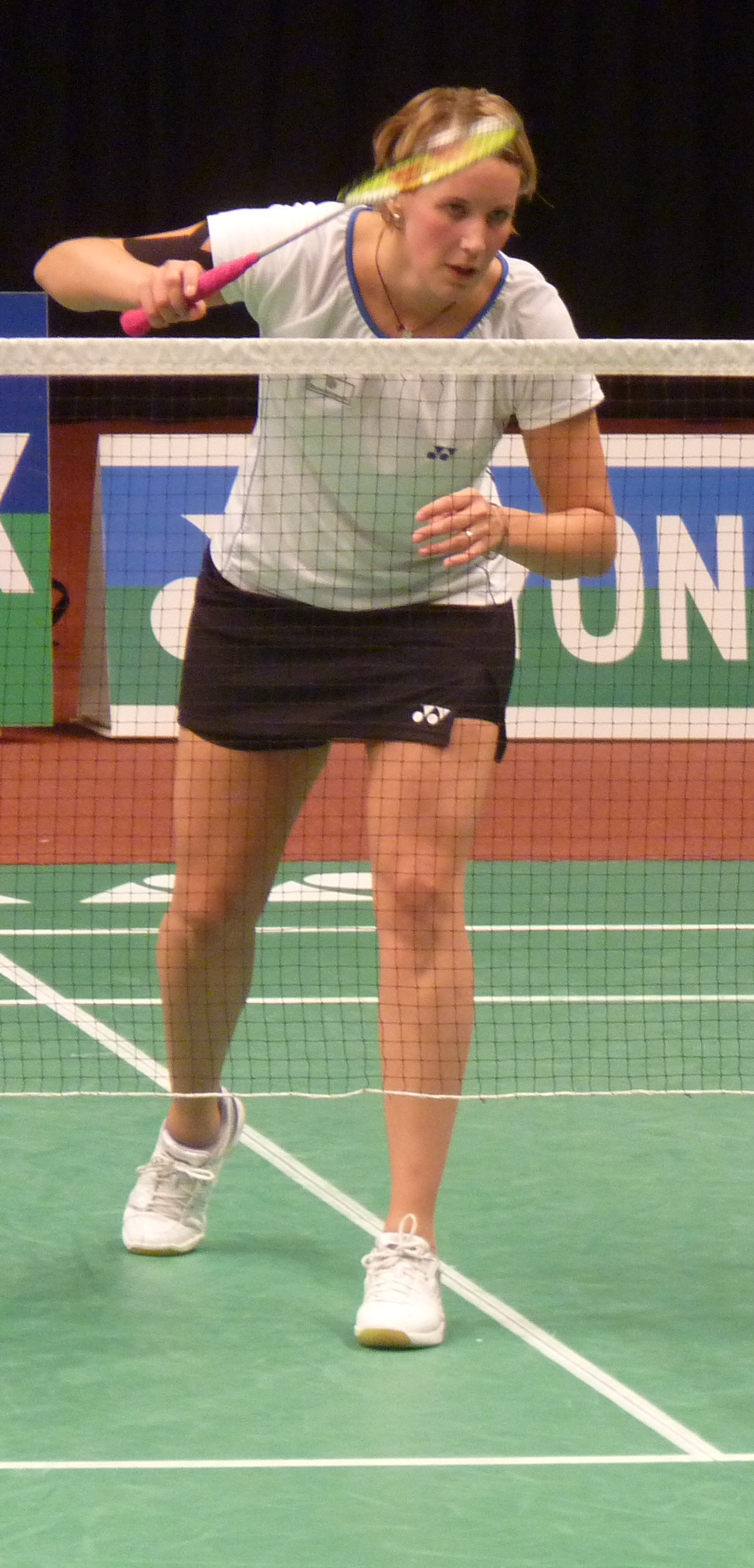 Birgit Michels (GER)